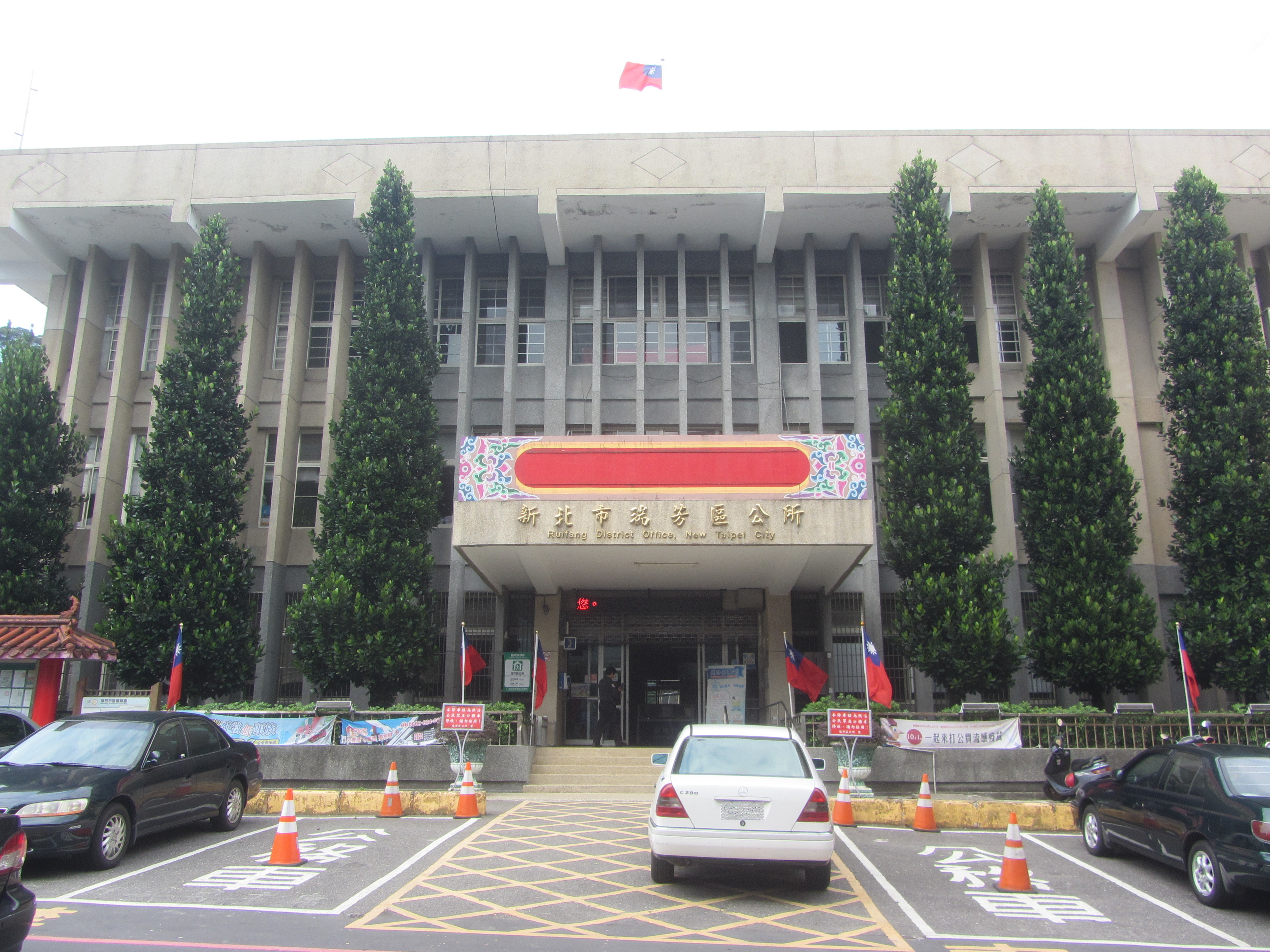 Ruifang District Office, New Taipei City. 中文（台灣）: 新北市瑞芳區公所，地址：新北市瑞芳區逢甲路82號。